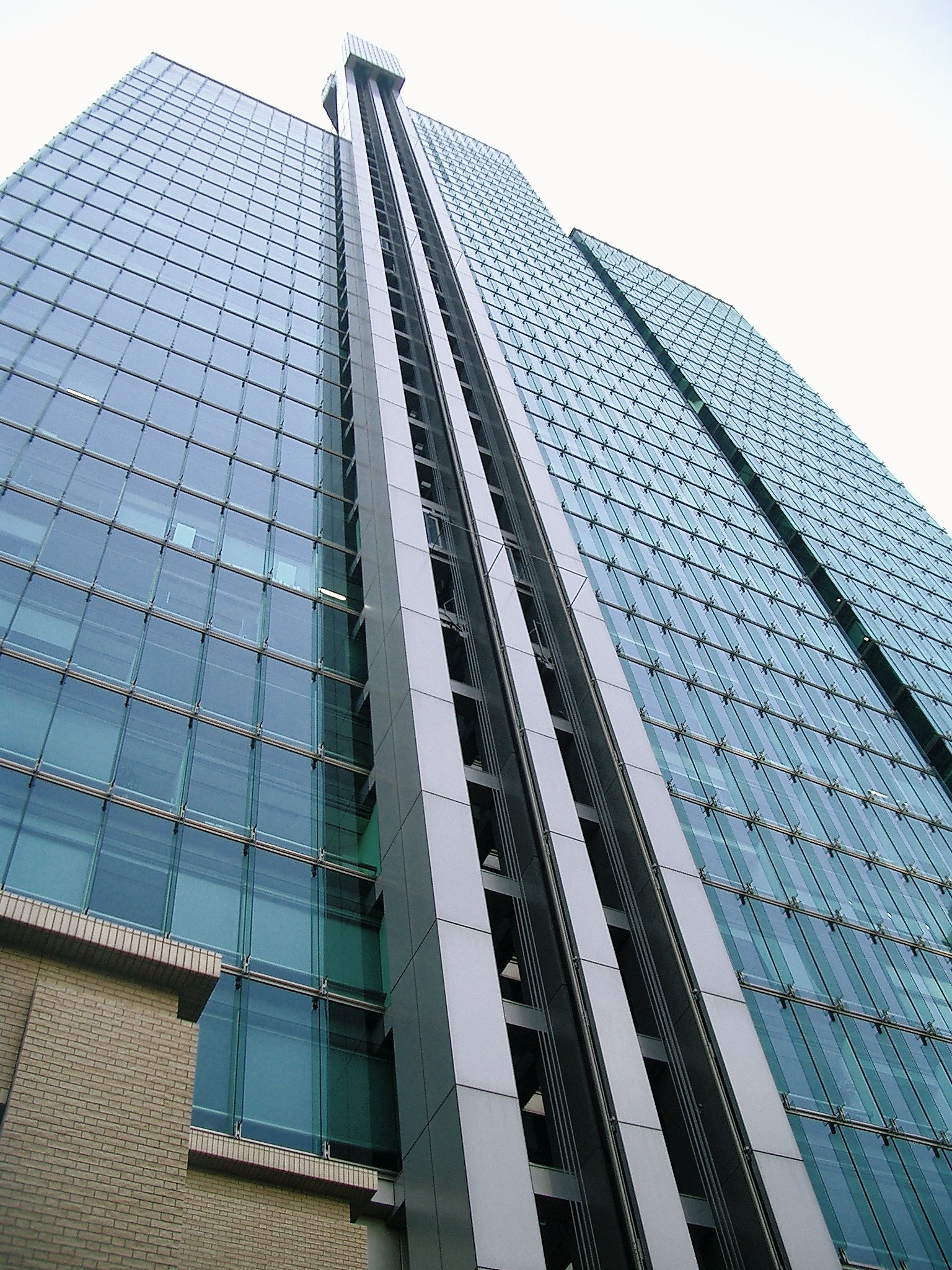 the elevator of Izumi Garden Tower which is put outside of the building